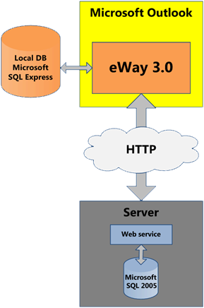 eWay CRM Architecture